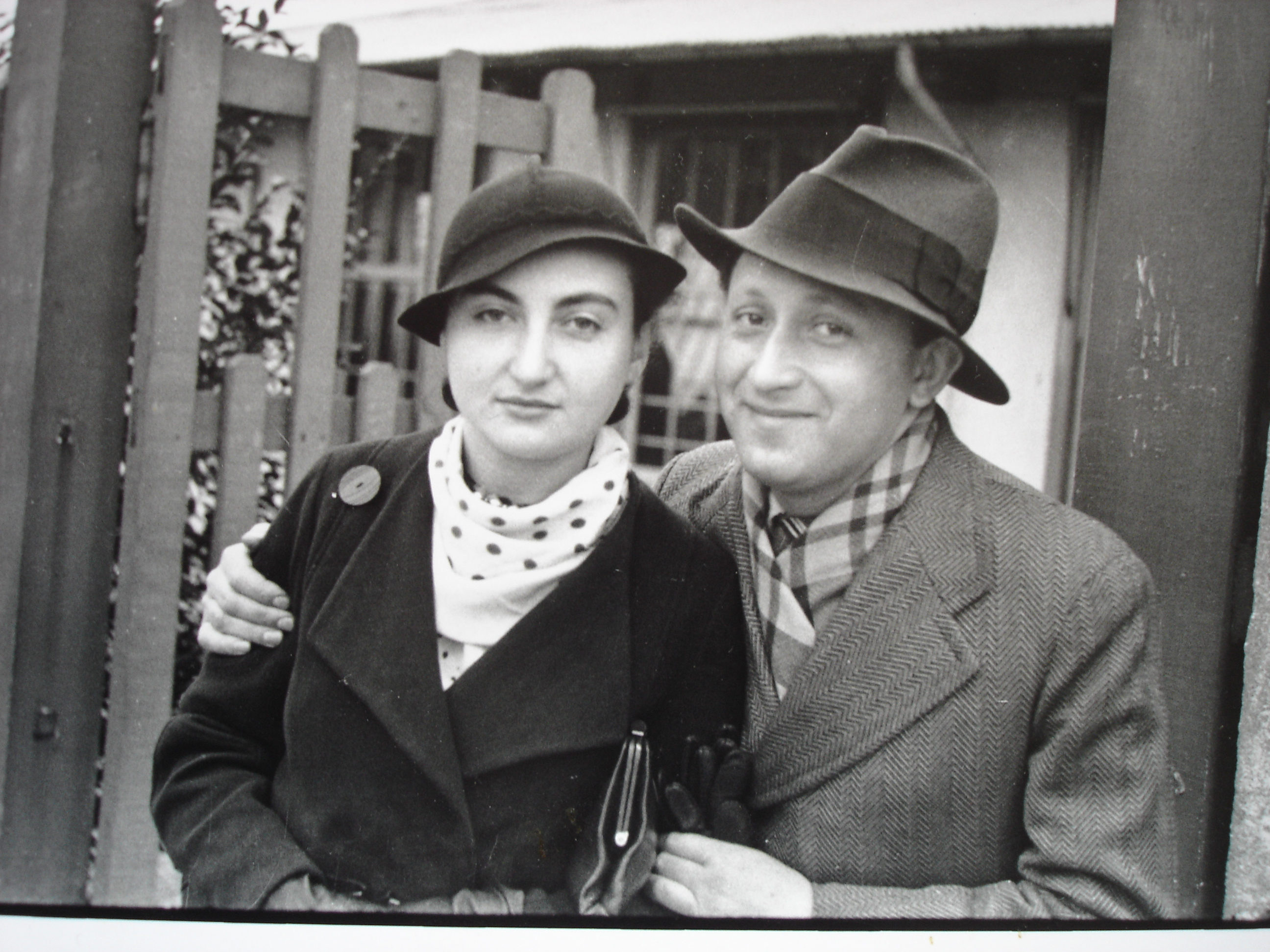 S. L. Shneiderman and Eileen Szymin-Shneiderman in Paris, 1931-1933 (photograph taken by Eileen's brother, photographer David Seymour).